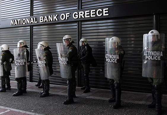 Tens of thousands of striking Greek workers took to the streets, some throwing stones at police, in a defiant show of protest against austerity measures aimed at averting the debt-plagued country’s economic collapse. wp.me/p5Xdy-IL